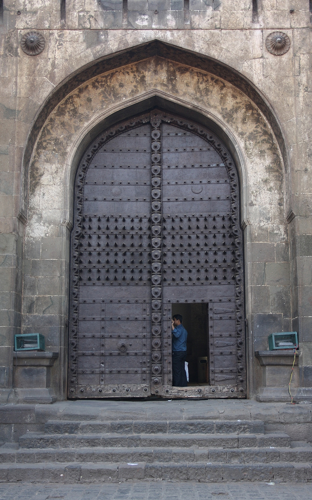 Front gate of Shaniwar Wada, Pune, Maharashtra, India